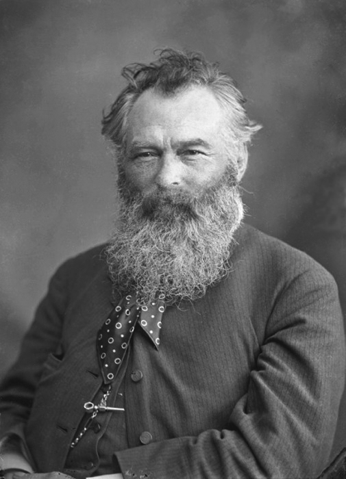 Ivan Shiskin